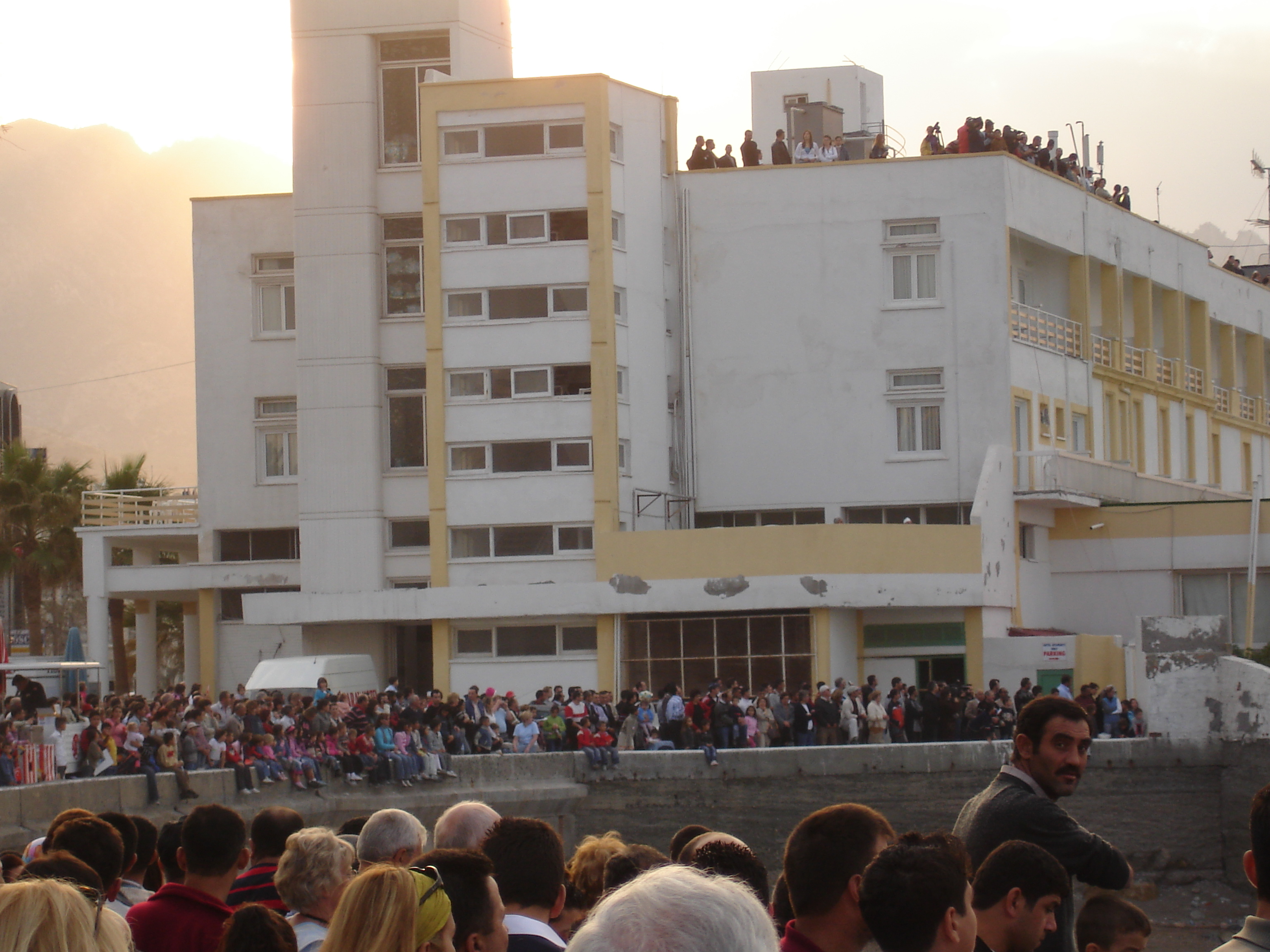 Turkish Cypriots watching Turkish Stars show in Kyrenia harbour. 15 November 2005, Republic Day in the Turkish Republic of Northern Cyprus to honour the declaration of the republic. Dome Hotel is the building in the photo.